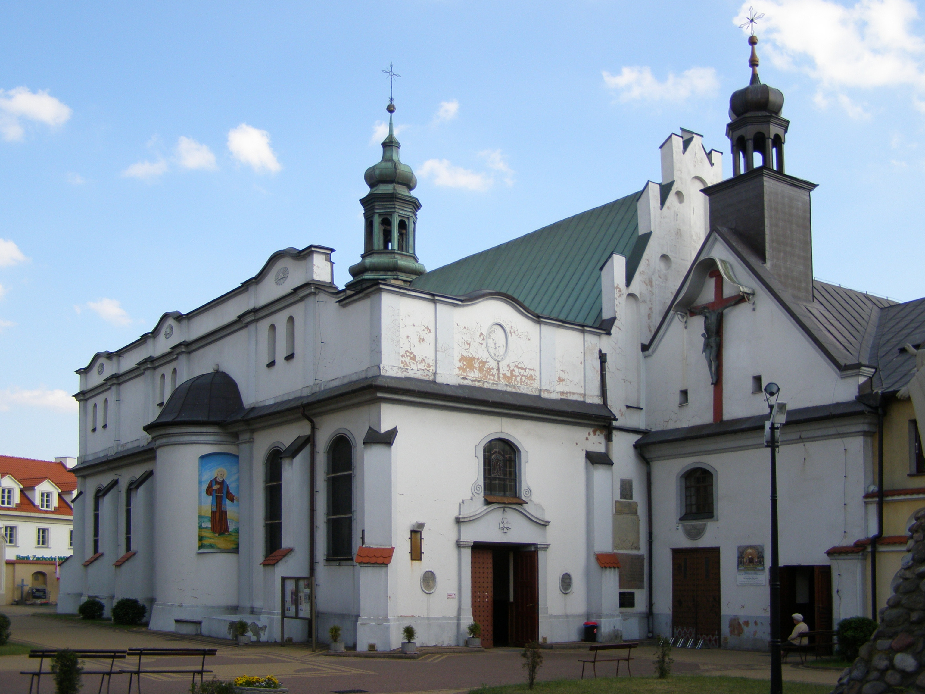 All Saints church in Włocławek